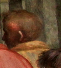 Detail of School of Athens. Male character, often attributed to Eubulides.